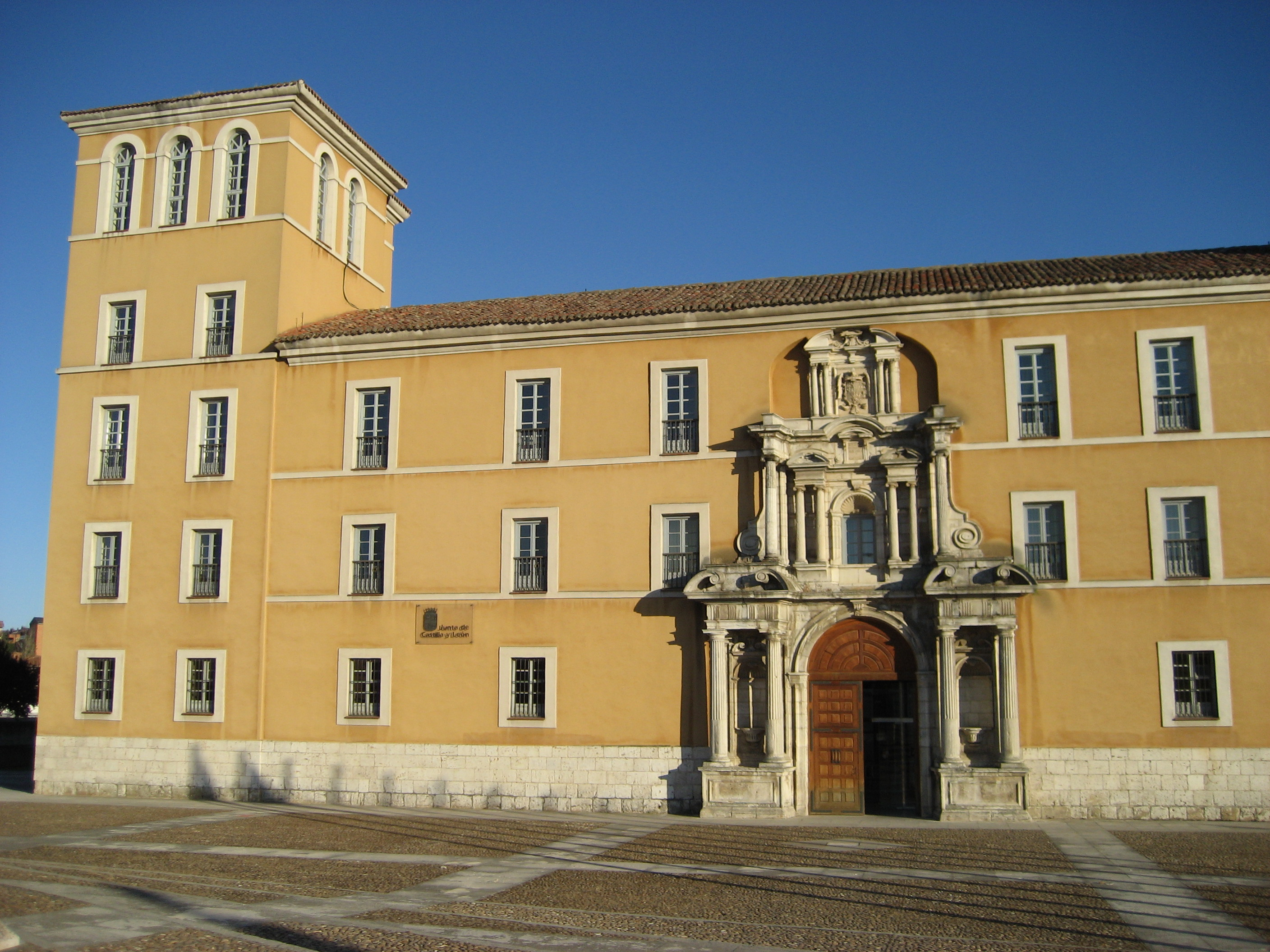 Left tower and front entrance of Nuestra Señora de Prado Monastery, Valladolid, ES